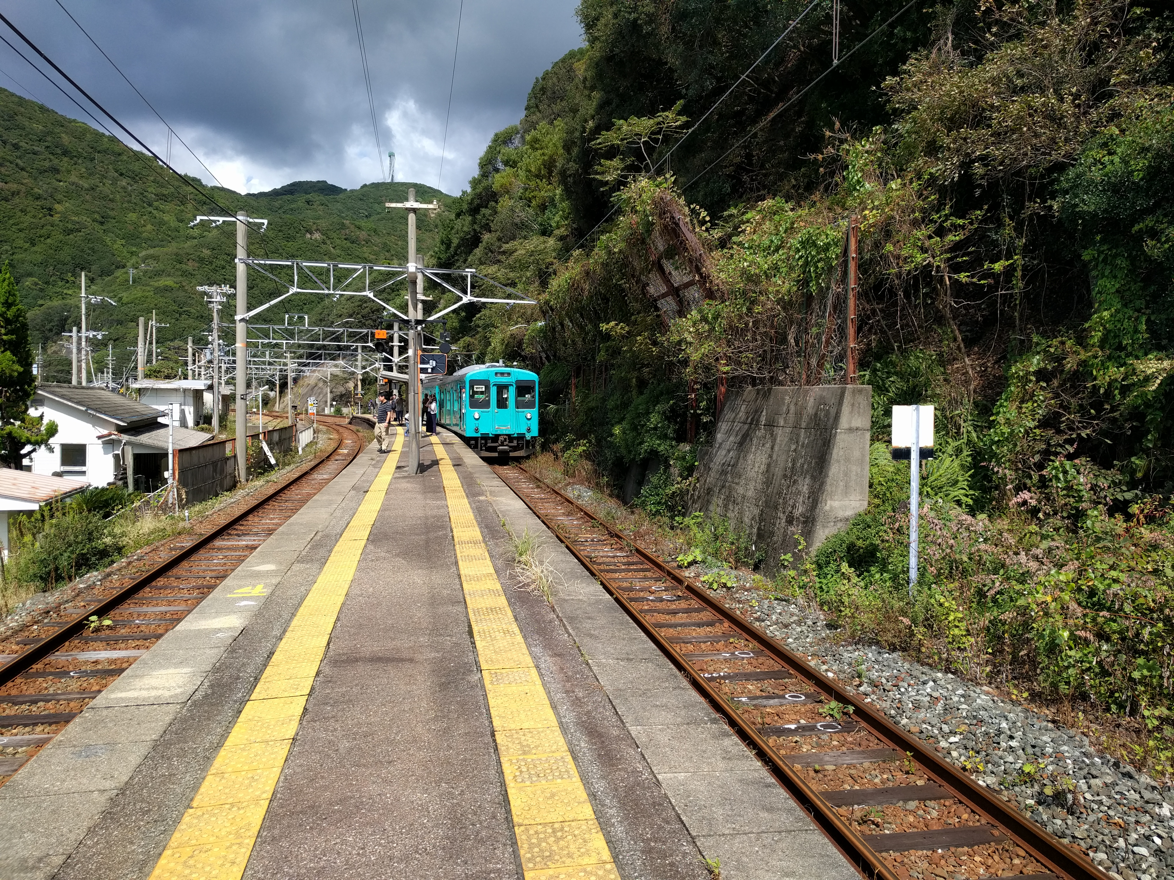 A JR West 105 series EMU at Mirozu Station on the Kisei Main Line in Wakayama Prefecture, Japan